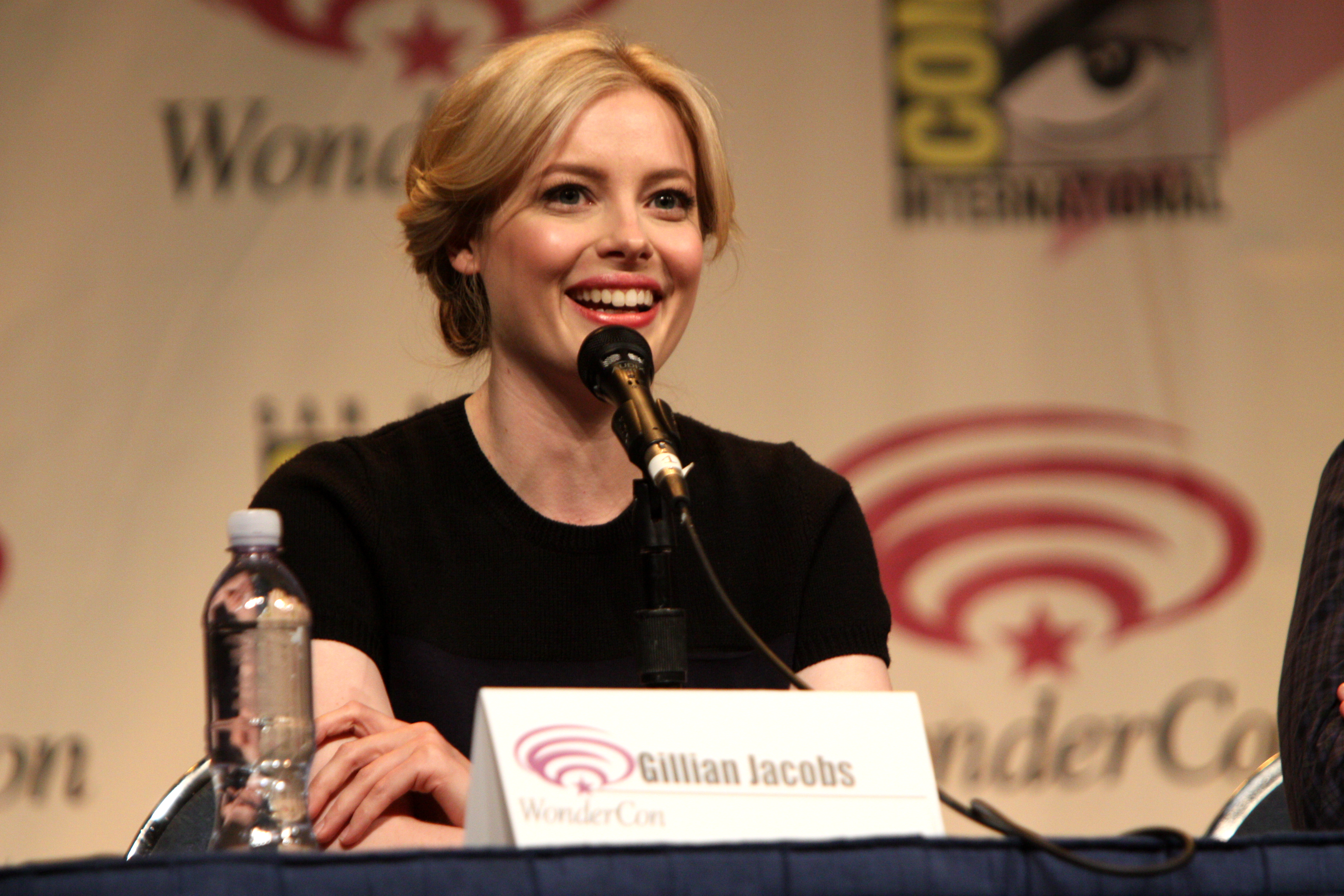 Gillian Jacobs speaking at the 2012 WonderCon in Anaheim, California.